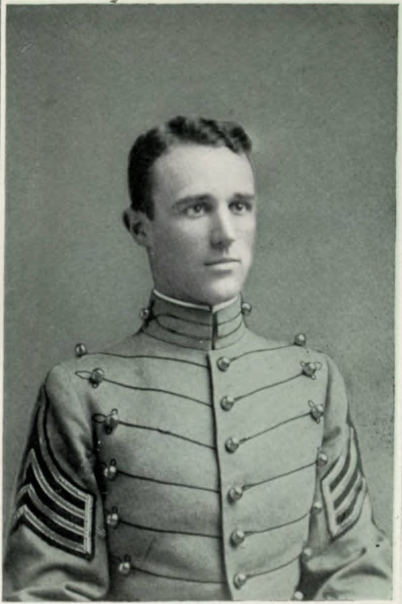 Gregory Hoisington